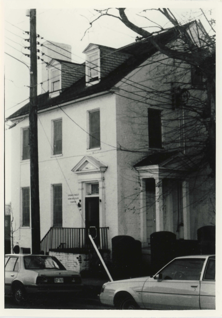 Samuel Pleasants Parsons house, taken by Richard Cote in 1986 for Oregon Hill nomination as a historic district.